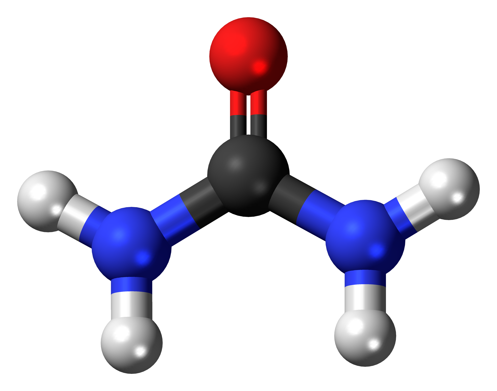 Ball-and-stick model of the urea molecule, also known as carbamide, an important biological compound and industrial raw material. Colour code: Carbon, C: black Hydrogen, H: white Oxygen, O: red Nitrogen, N: blue